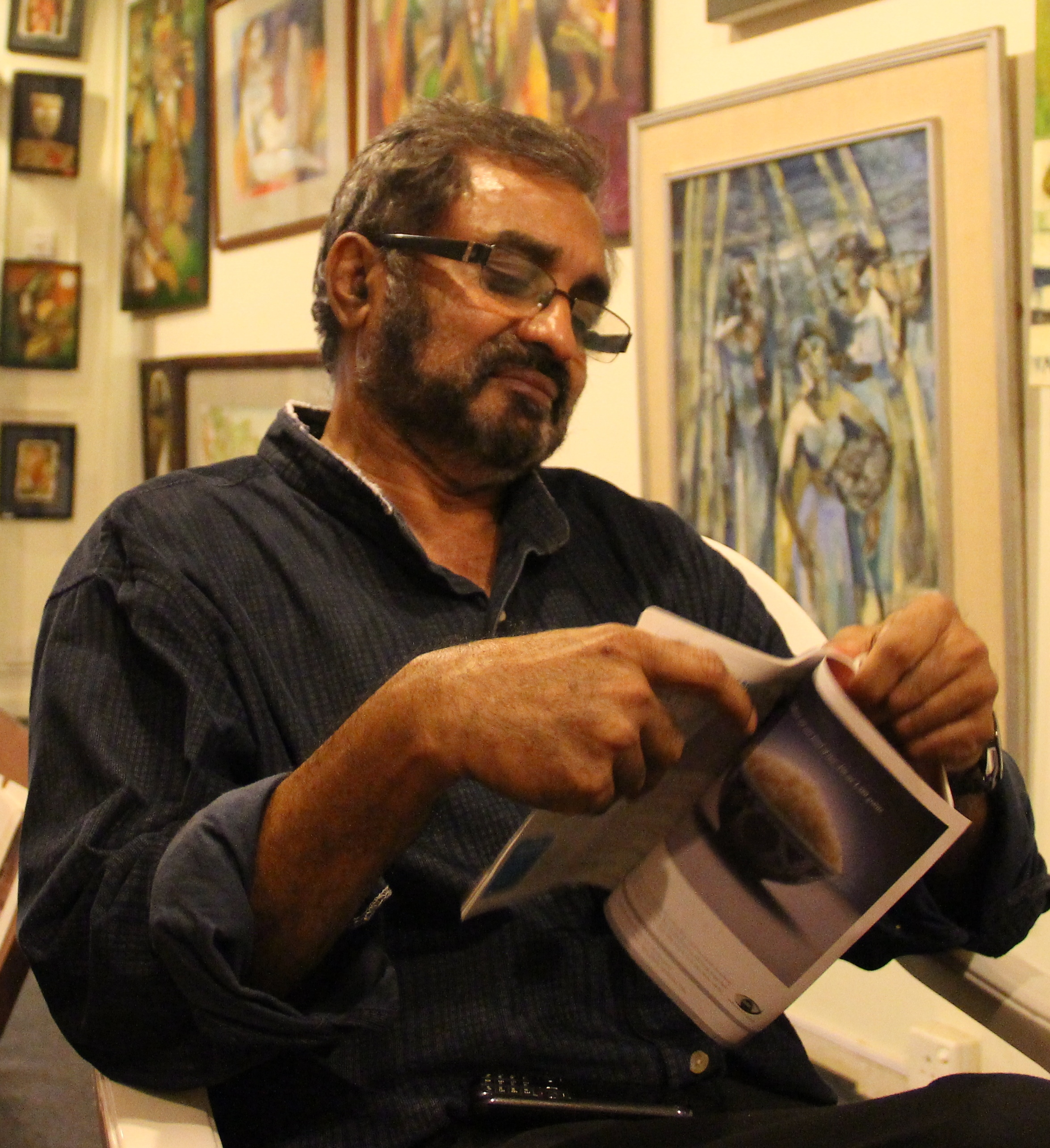 photo of raja segar 2013